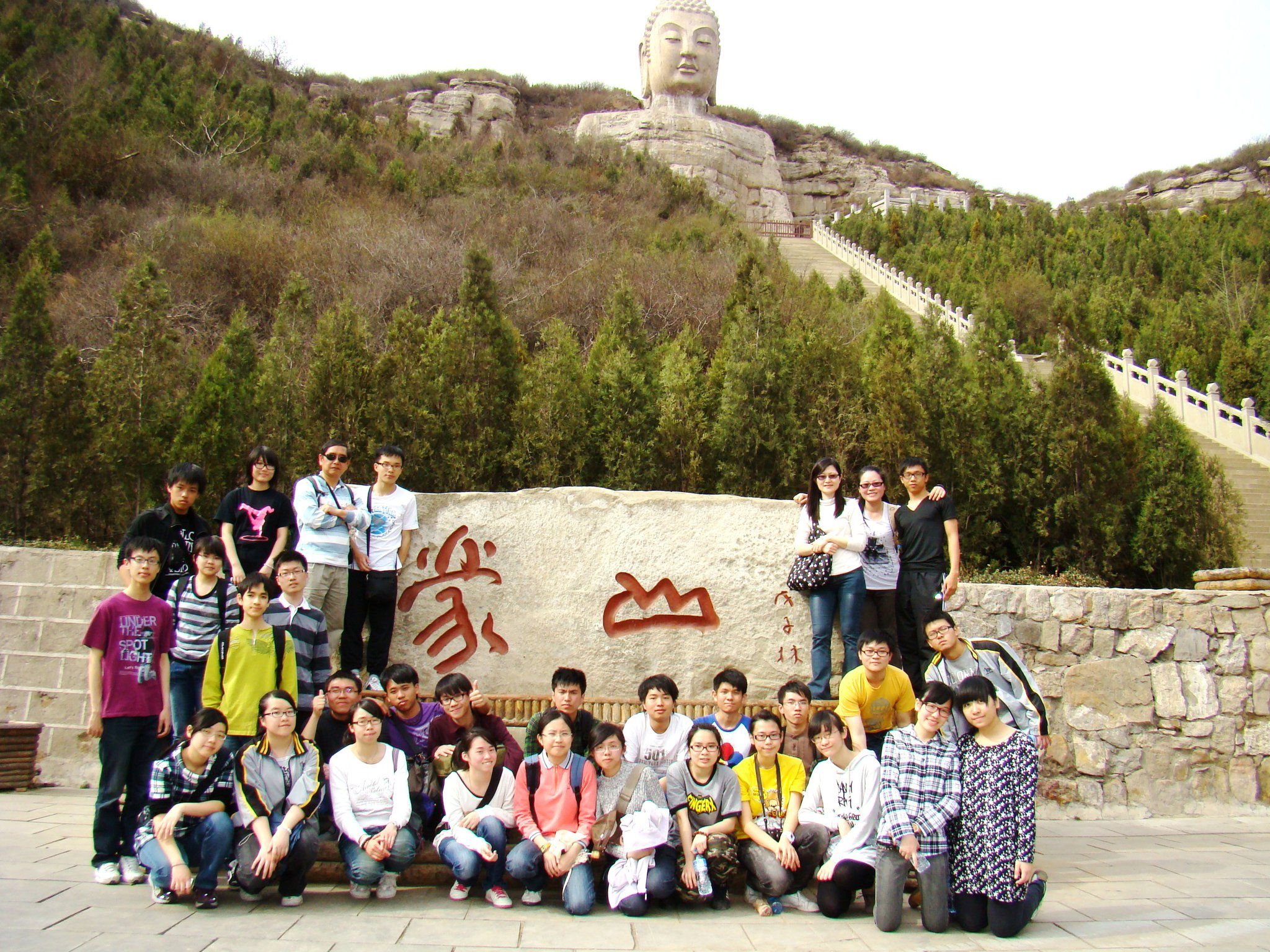 YOTTKP cultural trip